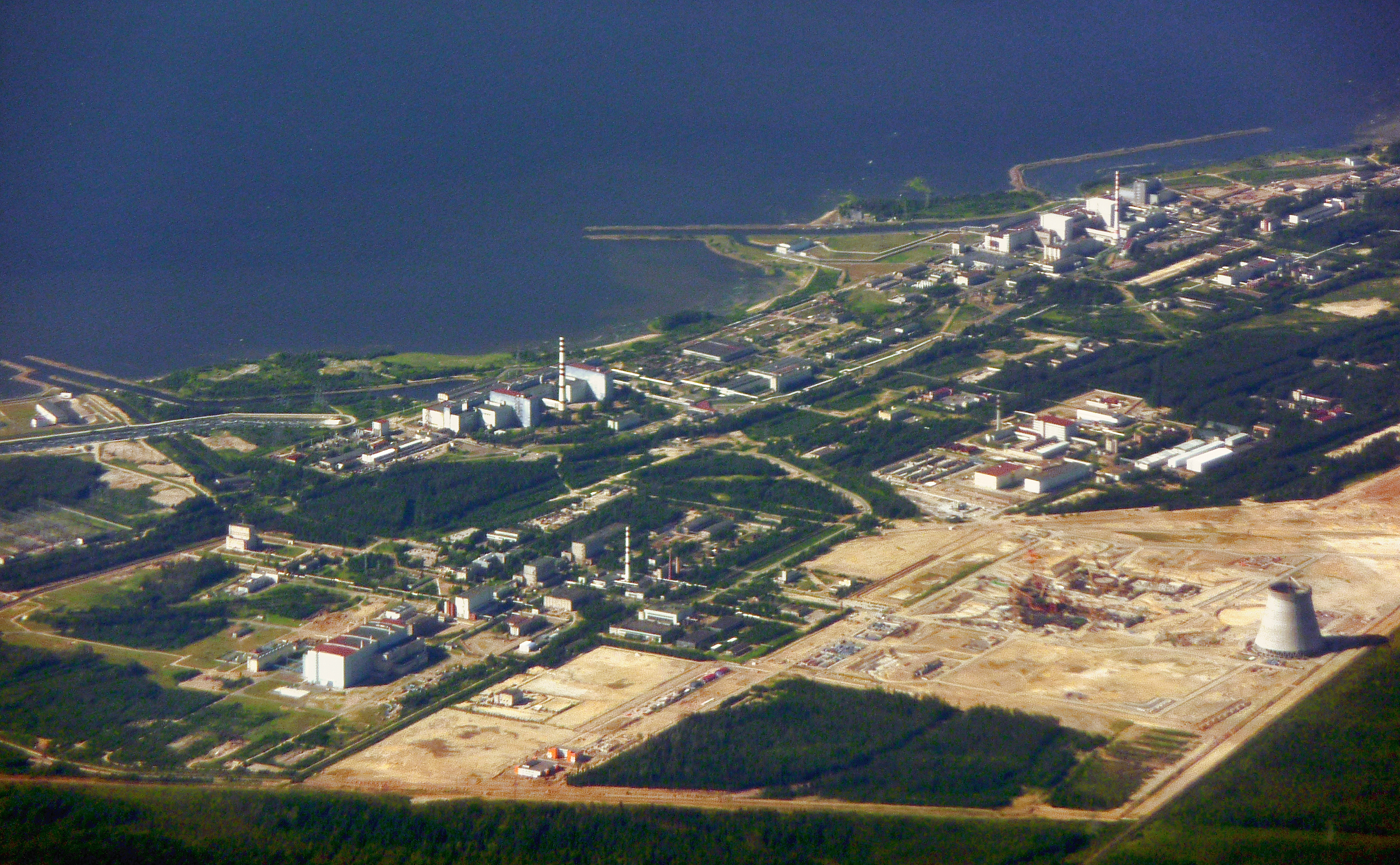 Site of the Nuclear Power Plant Leningrad, including the construction site of the Nuclear Power Plant Leningrad II; photo taken from an airplane.